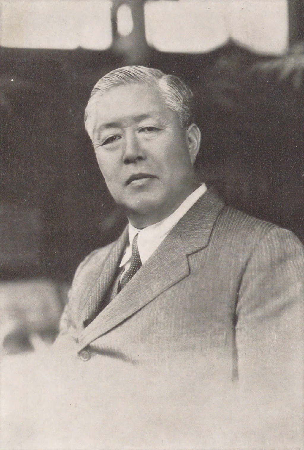 Portrait of Sugimura Yotaro (杉村陽太郎, 1884 – 1939)